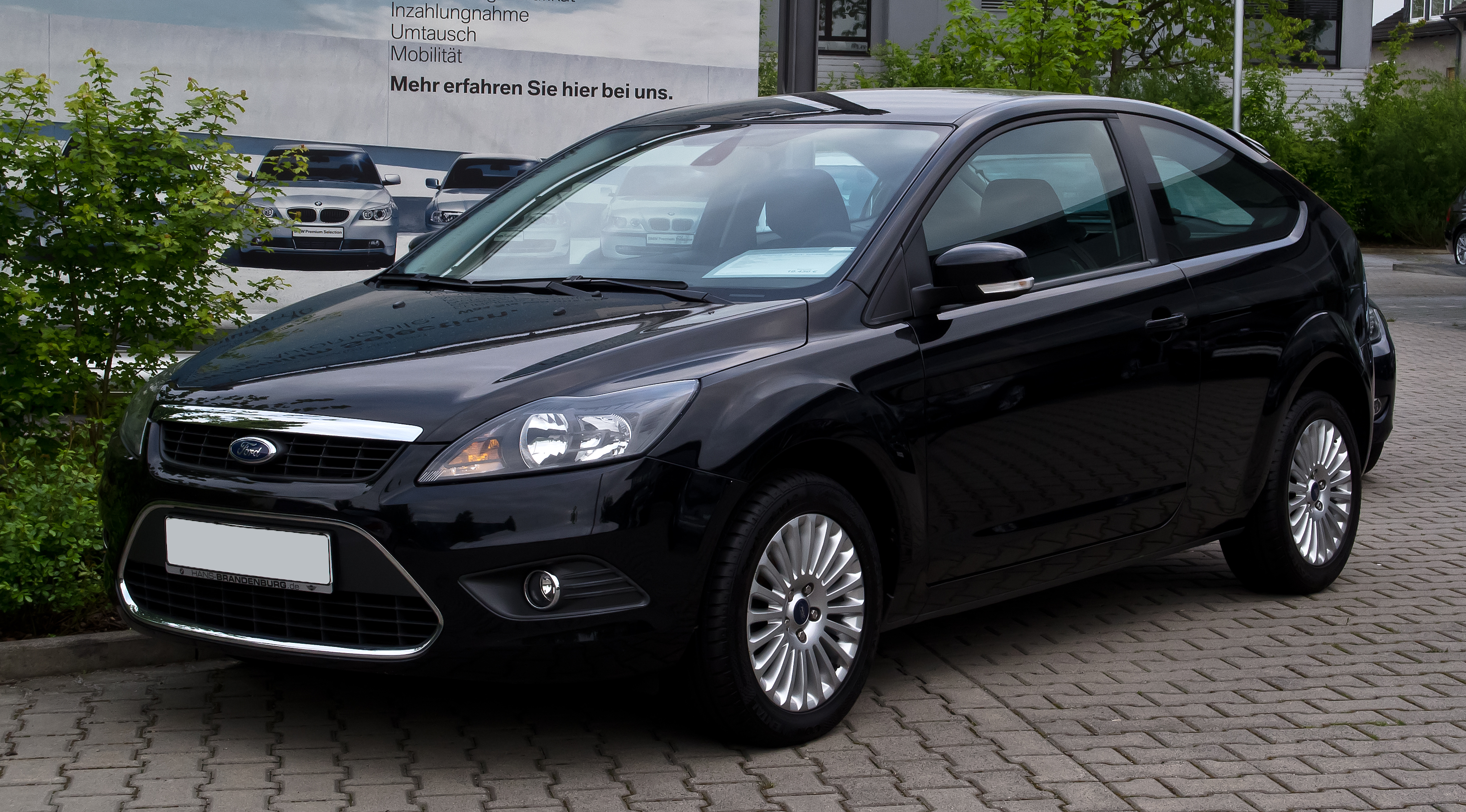 Ford Focus 2.0 Titanium (II, Facelift)